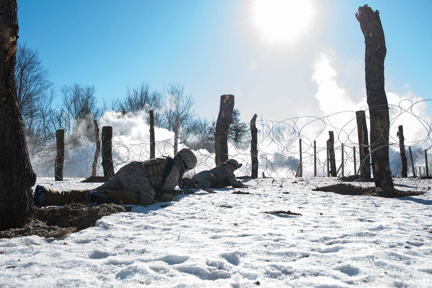 Vermont Army National Guard Soldiers with the 572nd Brigade Engineer Battalion, 86th Infantry Brigade Combat Team (Mountain), conduct training at Camp Ethan Allen Training Site, Jericho, Vt., Feb. 10, 2019. The Guardsmen are honing their skills prior to a Joint Readiness Training Center rotation this coming summer at Fort Polk in Louisiana. (Courtesy of the Vermont National Guard)